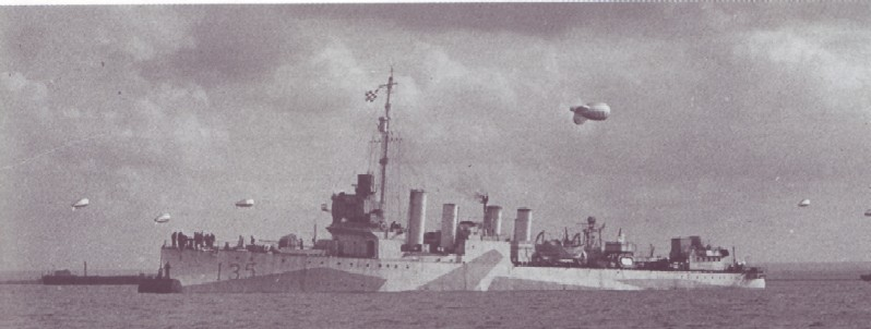 The Town class destroyer HMS Chelsea (ex-USS Crowninshield, DD-134) circa 1942 in the Thames after her London refit and quite possibly on her way to working up prior to sailing to Canada and service in the Western Local Escort Force.